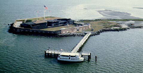 from (National Park Service)